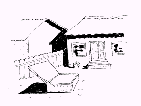 A solar cooker needs no supervision